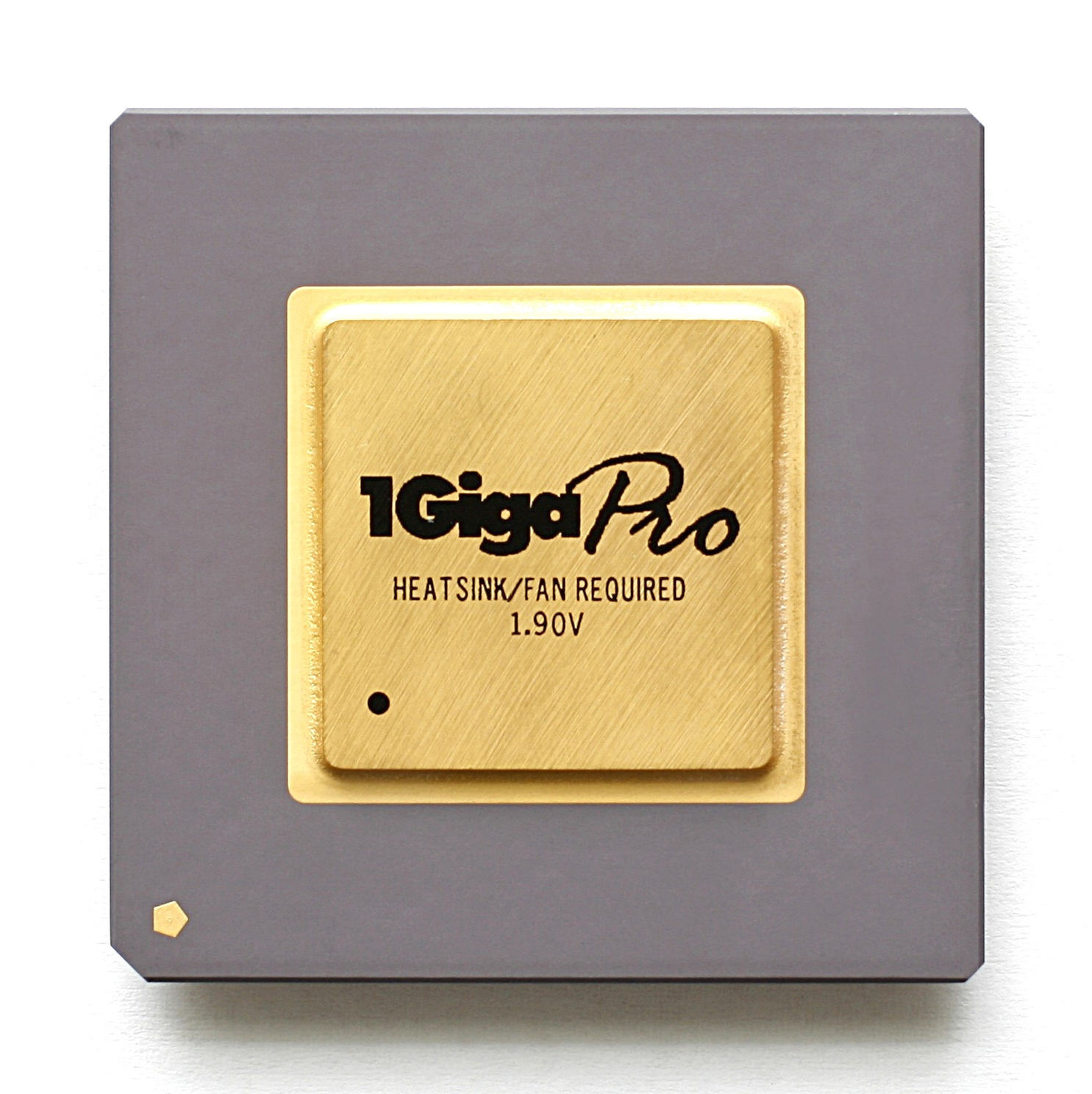 CPU VIA 1Giga Pro (remarked VIA C3), PGA